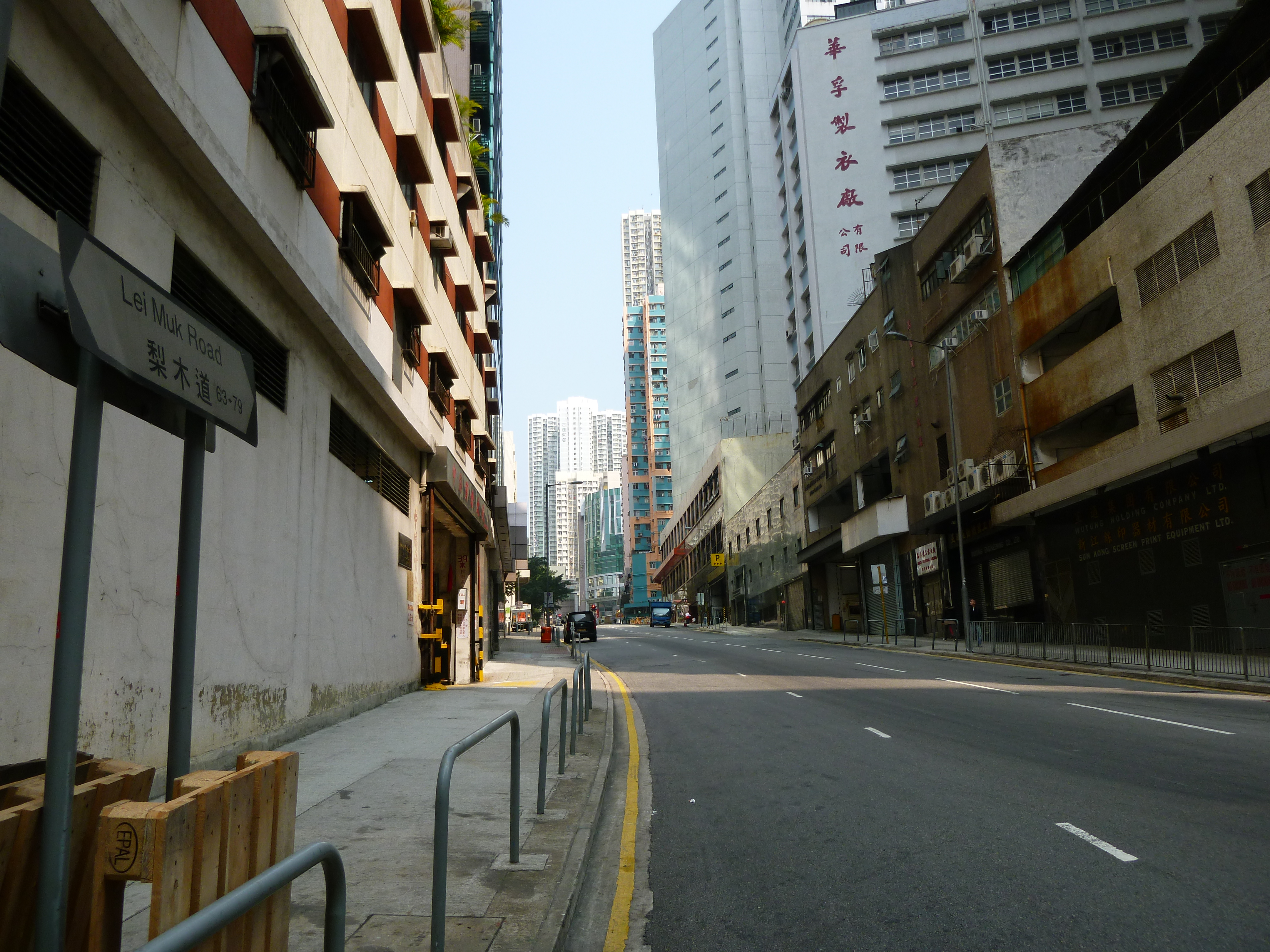 Lei Muk Road (Kwai Tsing, New Territories, Hong Kong)